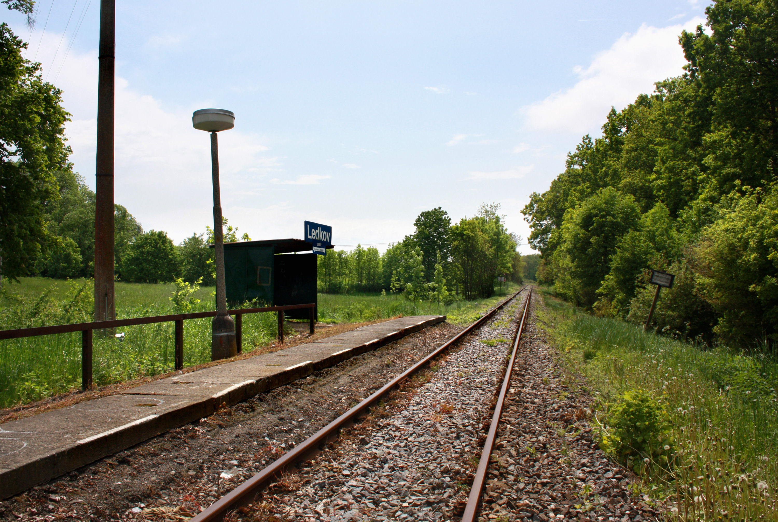 Railway stop in Ledkov, part of Kopidlno, Czech Republic